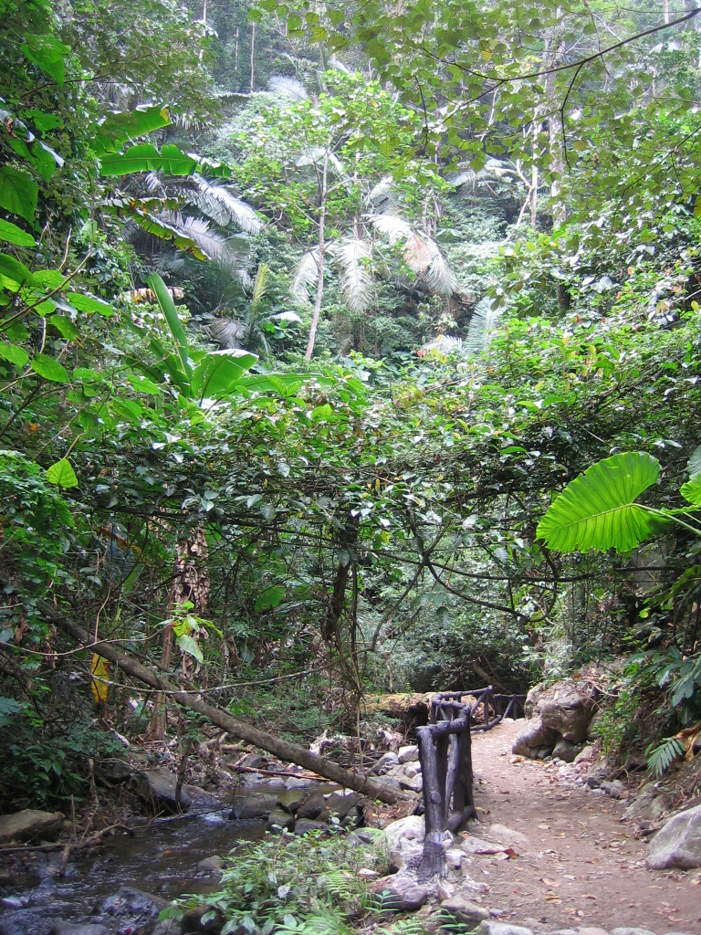 Tat Mok Nationalpark, Petchabun province, Thailand - valley near Tat Mok waterfall